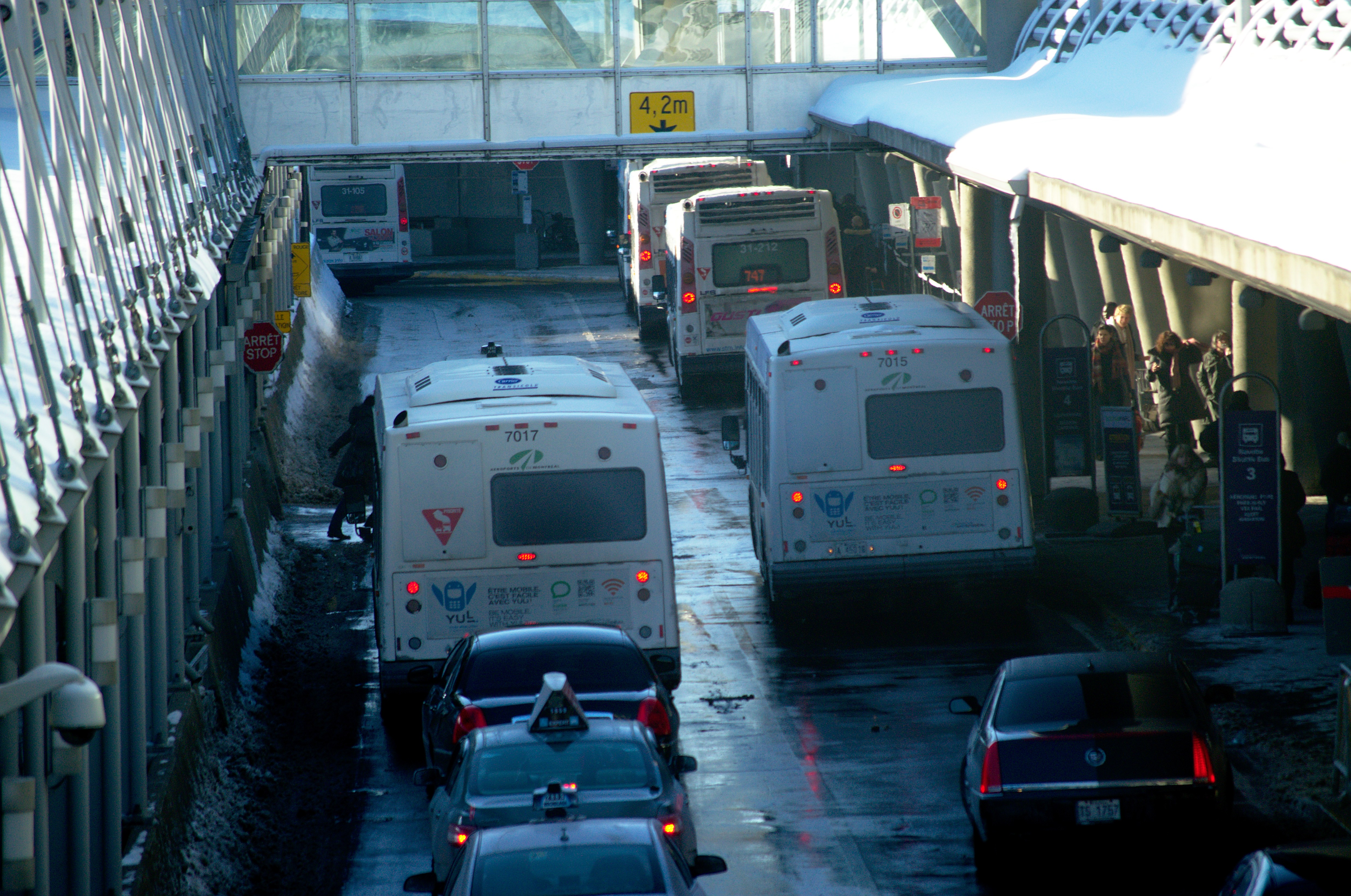 bus stop at montreal aiport